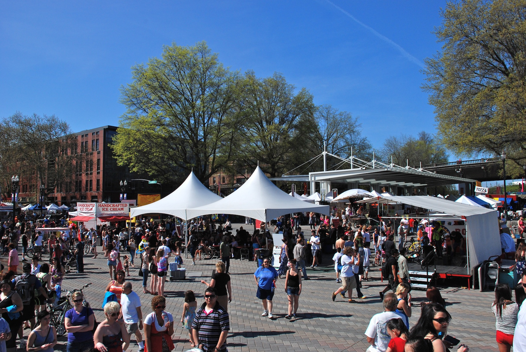 The south end of the Portland Saturday Market, at the market's post-2008 location, in Tom McCall Waterfront Park. The pavilion, a permanent structure with a cable-stayed roof to provide cover for vendors, is visible in the background.